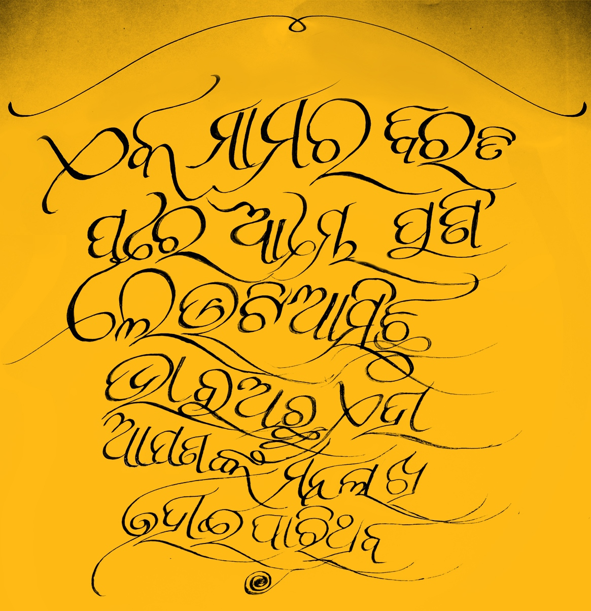 This is a calligraphy based design by me for the monthly Odia magazine eSabada.